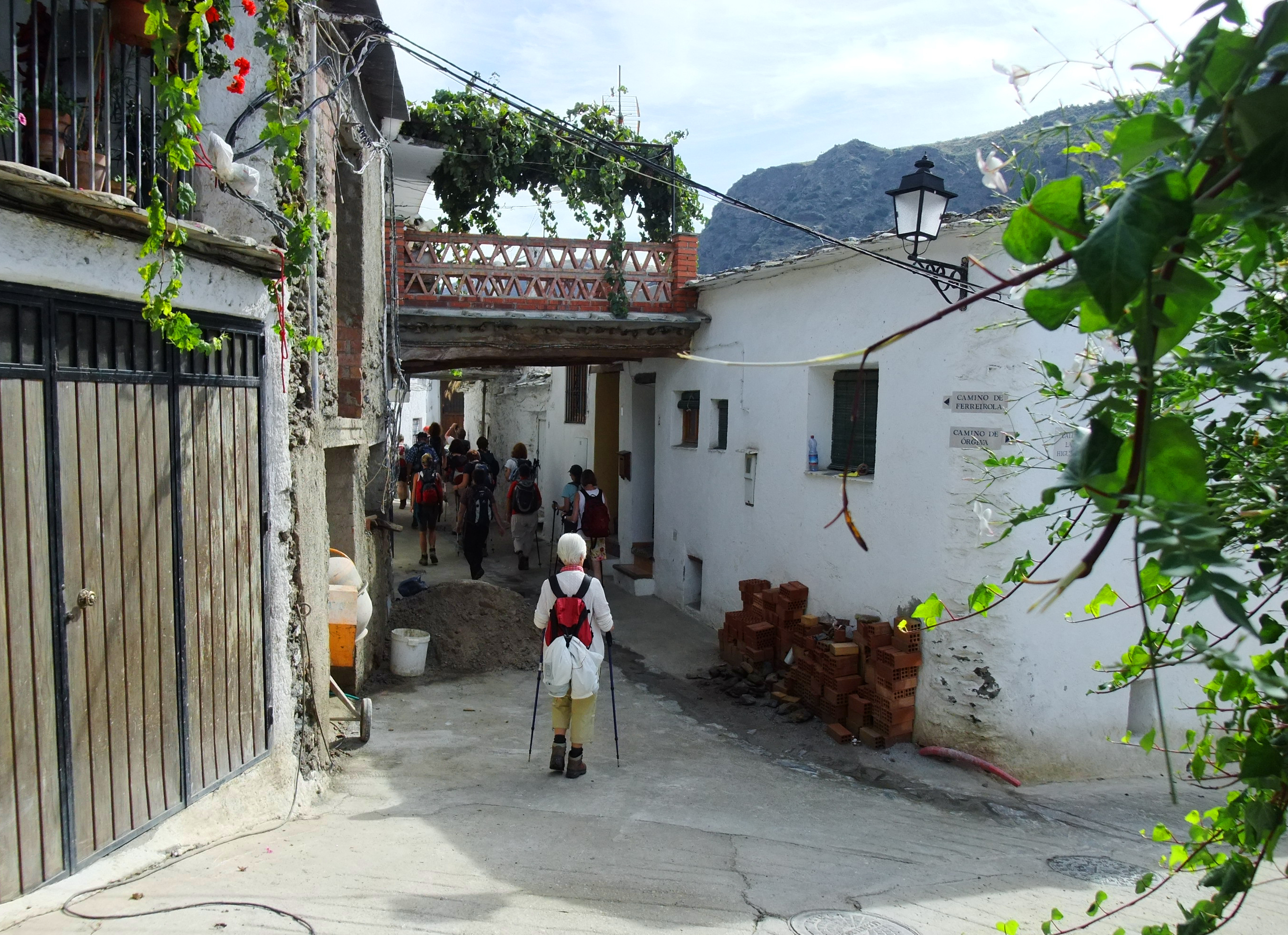 Street in Mecinilla, Granada in Spain